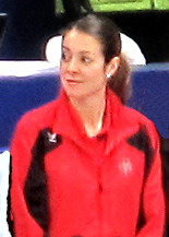 Mélanie Robillard before women's draw 5; 2010 Winter Olympics